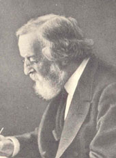 James Freeman Clarke (1810-1888)